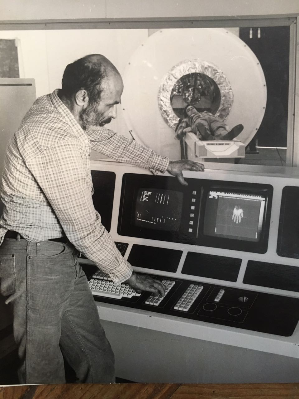 Yohanan Levanon near the MRI machine which he developed.